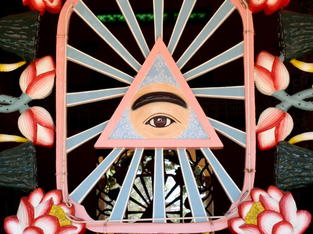 Eye of Providence, Cao Dai.